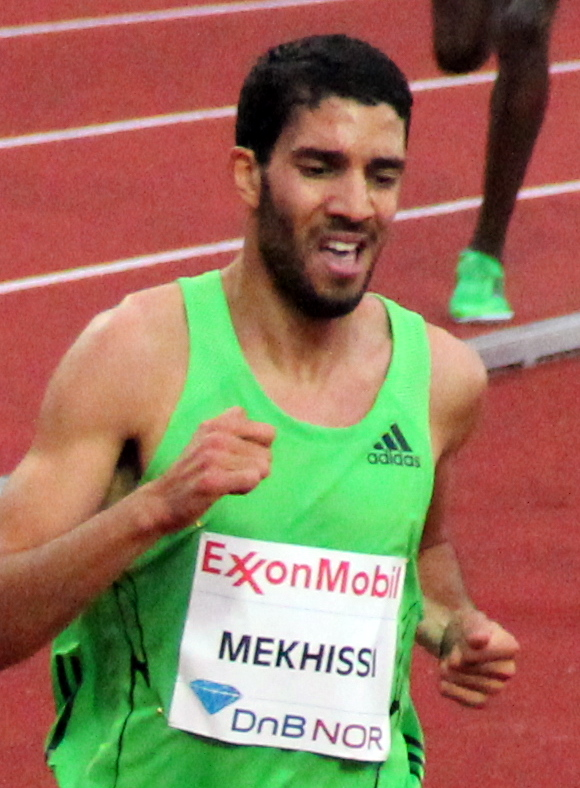 Mahiedine Mekhissi-Benabbad at the 2011 Bislett Games